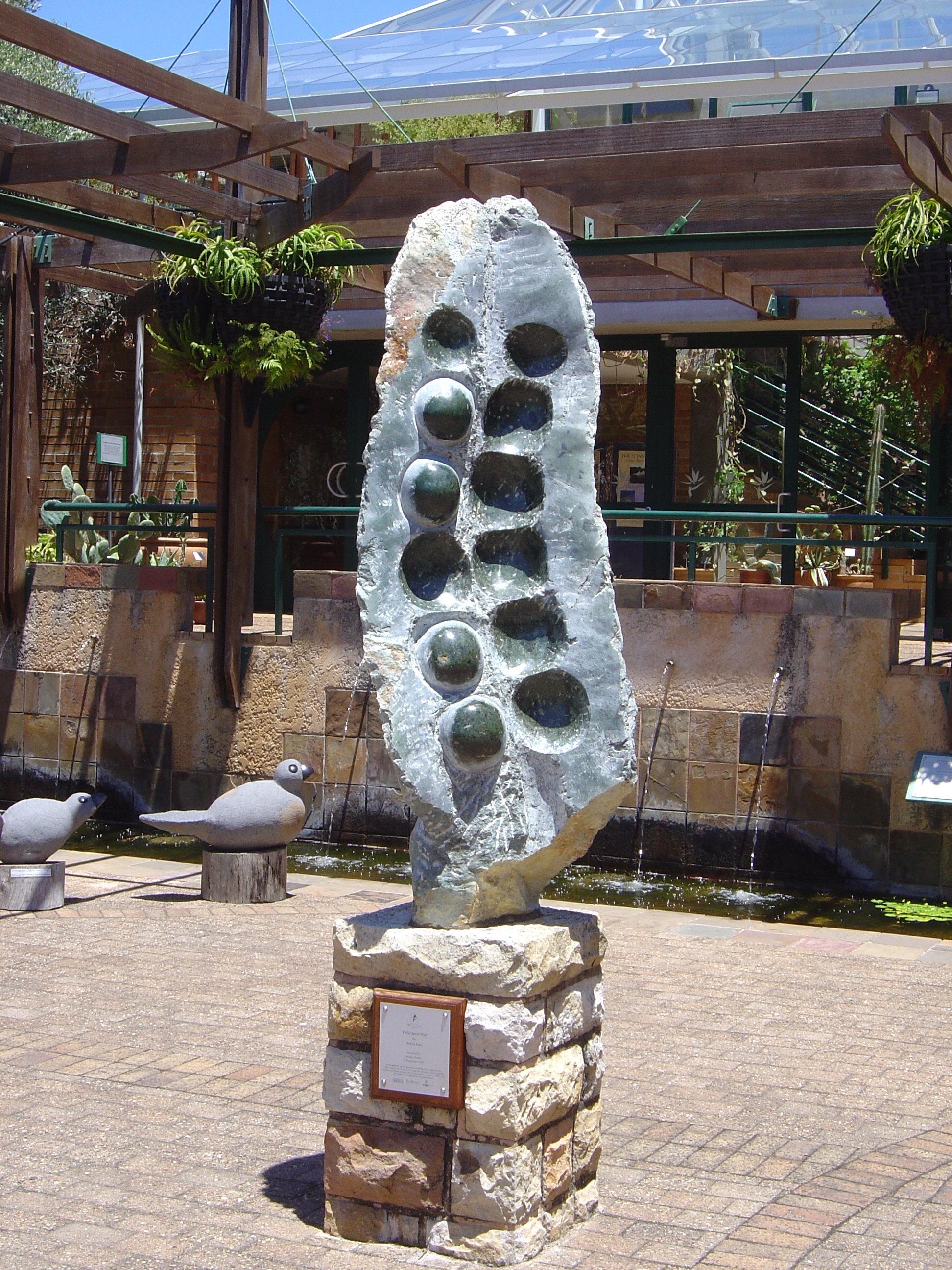 Wild Seed Pod by Arthur Fata from Zimbabwe. This sculpture stands at the entrance of Kirstenbosch botanical gardens in Cape Town, South Africa.